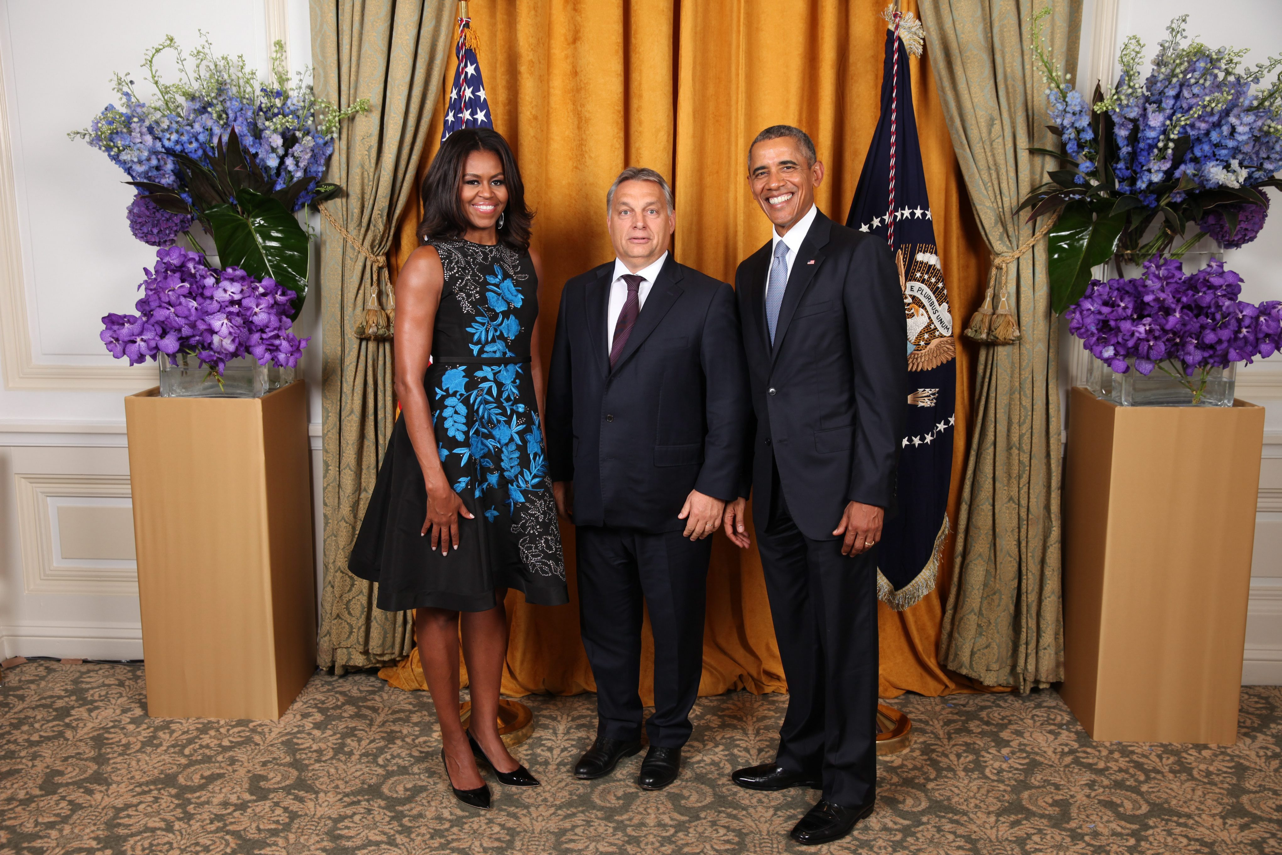 Barack Obama, Michelle Obama and Viktor Orbán in 2015, New York (UN 70th General Assembly)